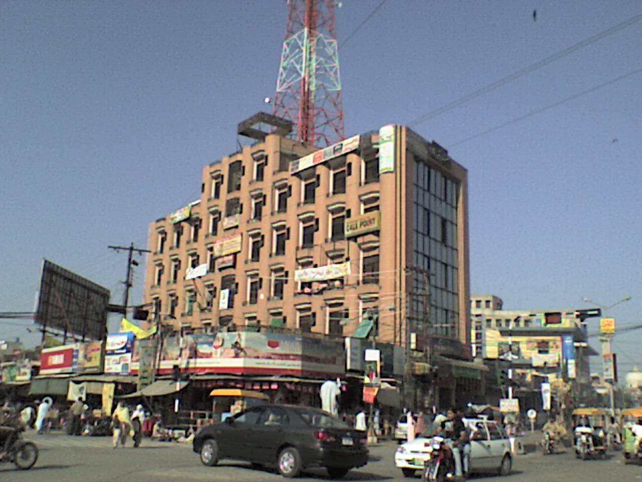 Shabir plaza, Shandar Chowk